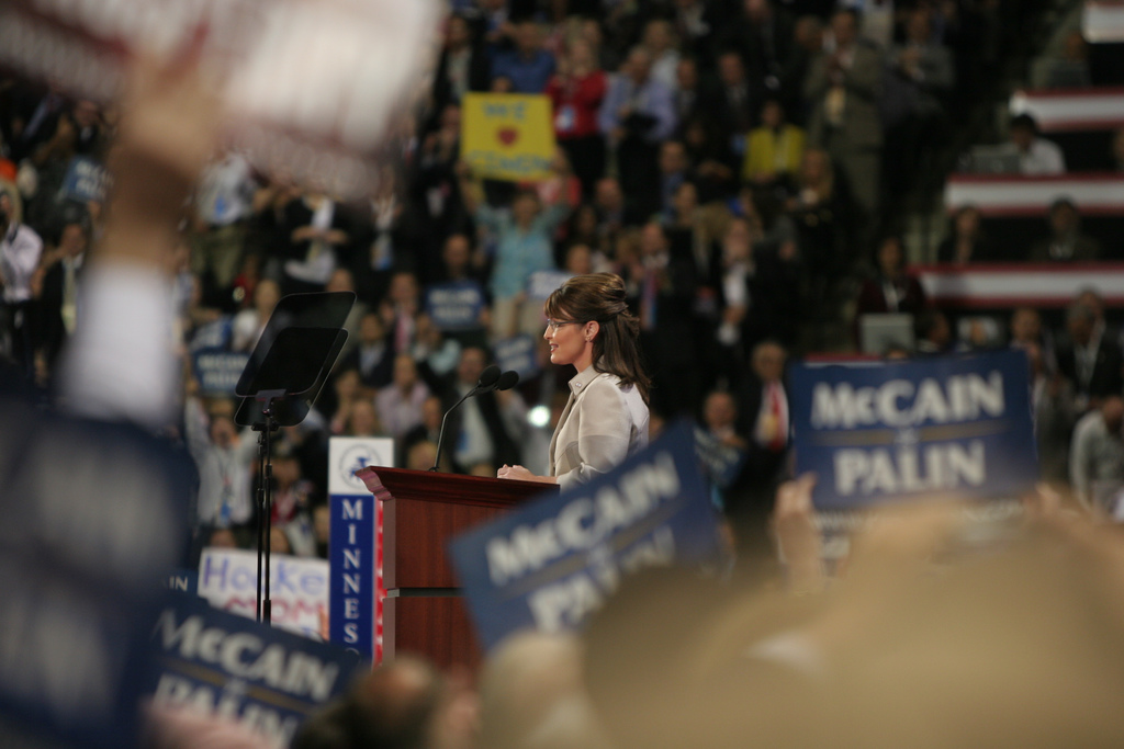 Sarah Palin addressing the w:2008 Republican National Convention in Saint Paul, Minnesota